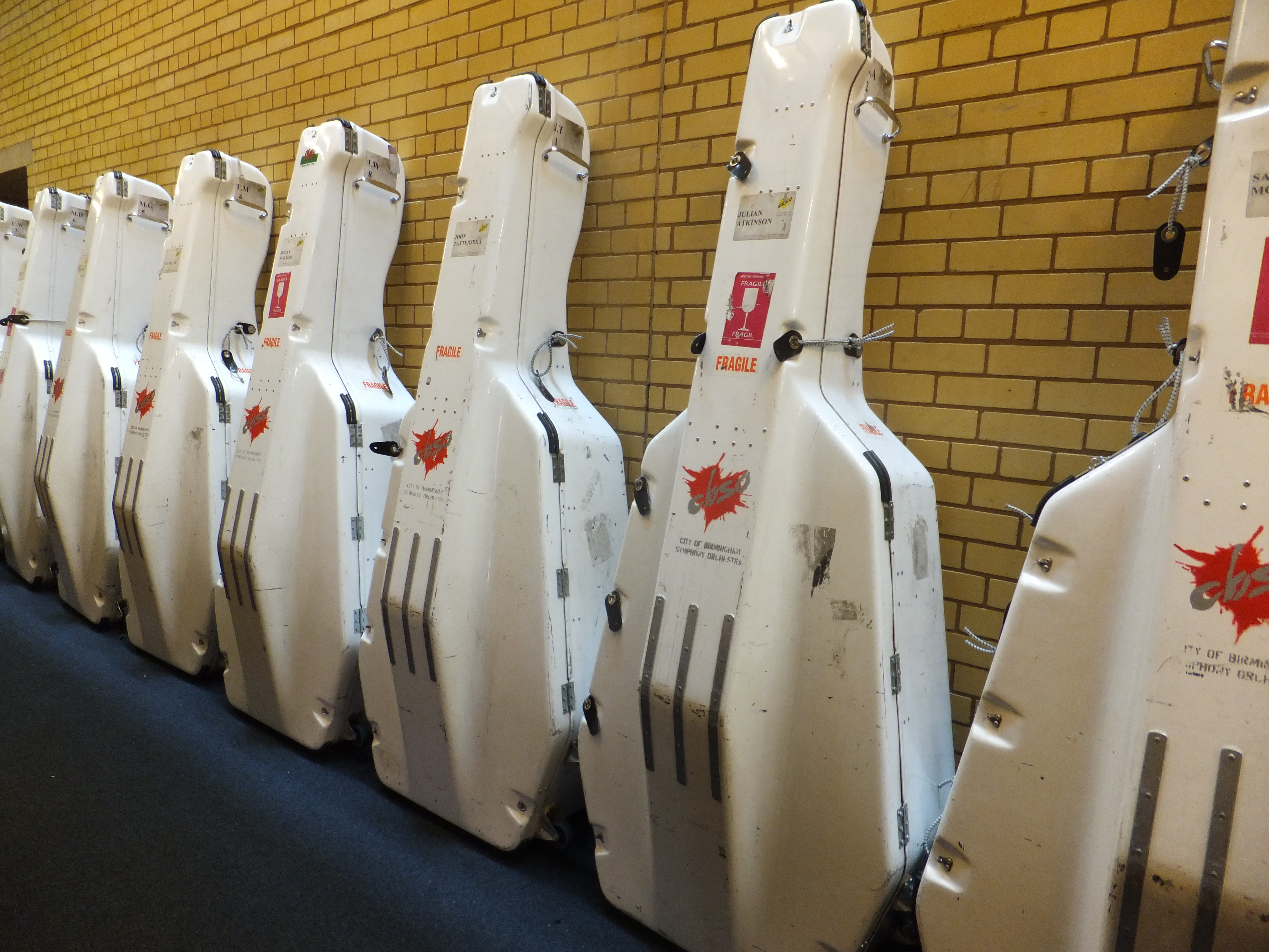 All the double basses lined up in a row...